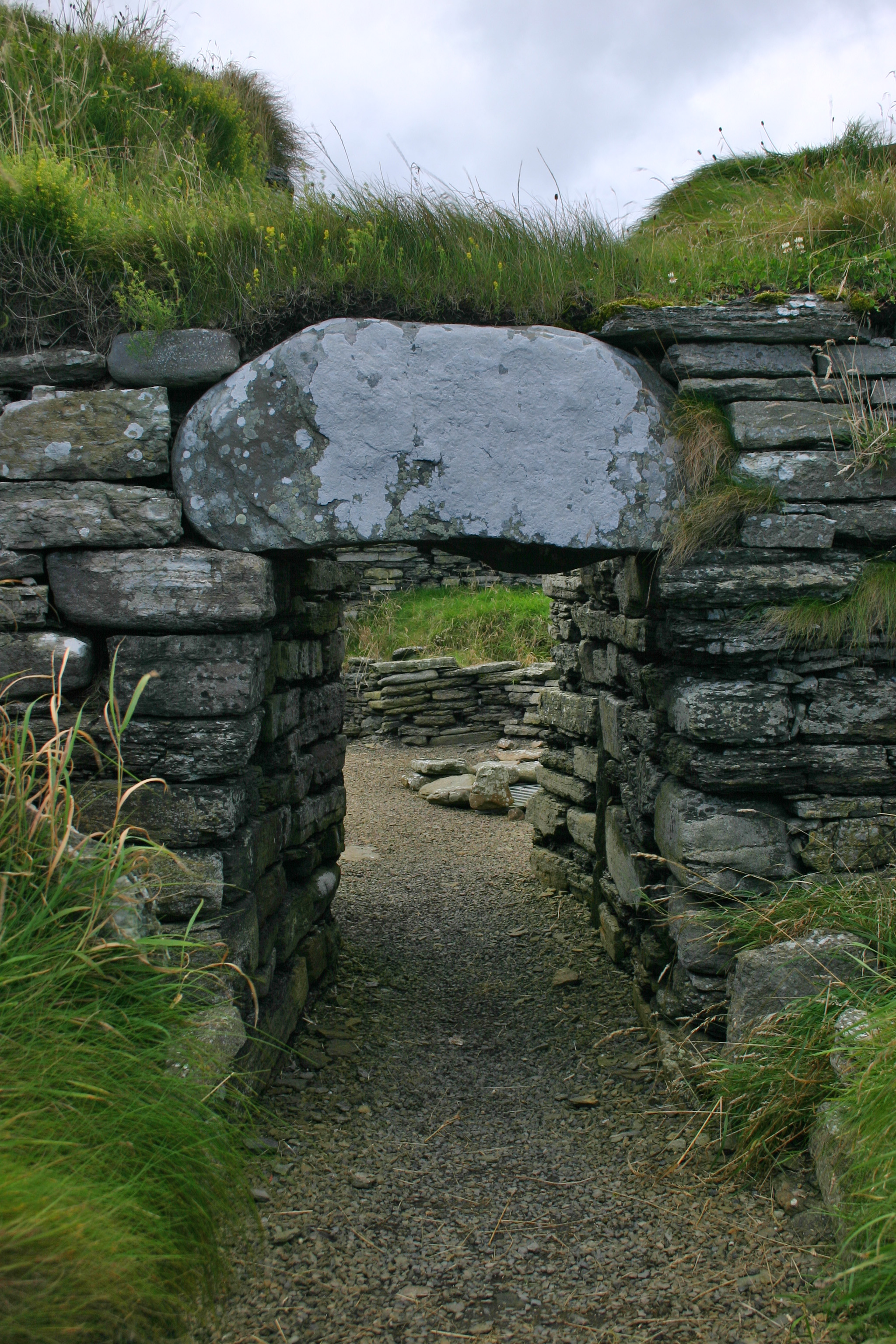 entryway, Burroughston Broch, Shipinsay, Orkney, Scotland